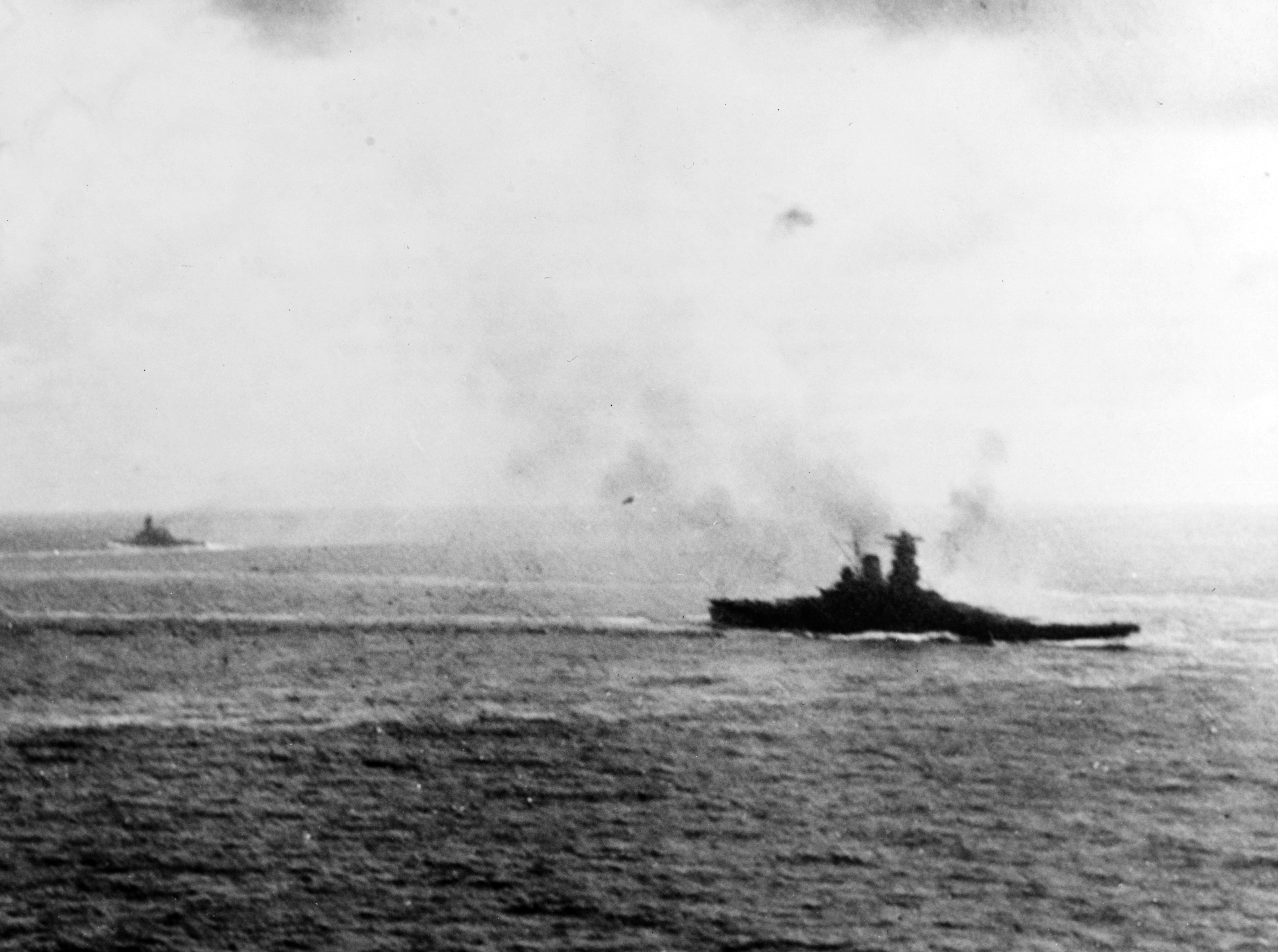 The Japanese battleship Yamato (right) in action with U.S. carrier planes off during the Battle off Samar, 25 October 1944. Another battleship is in the left distance, steaming in the opposite direction.